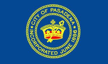 Pasadena, CA city flag